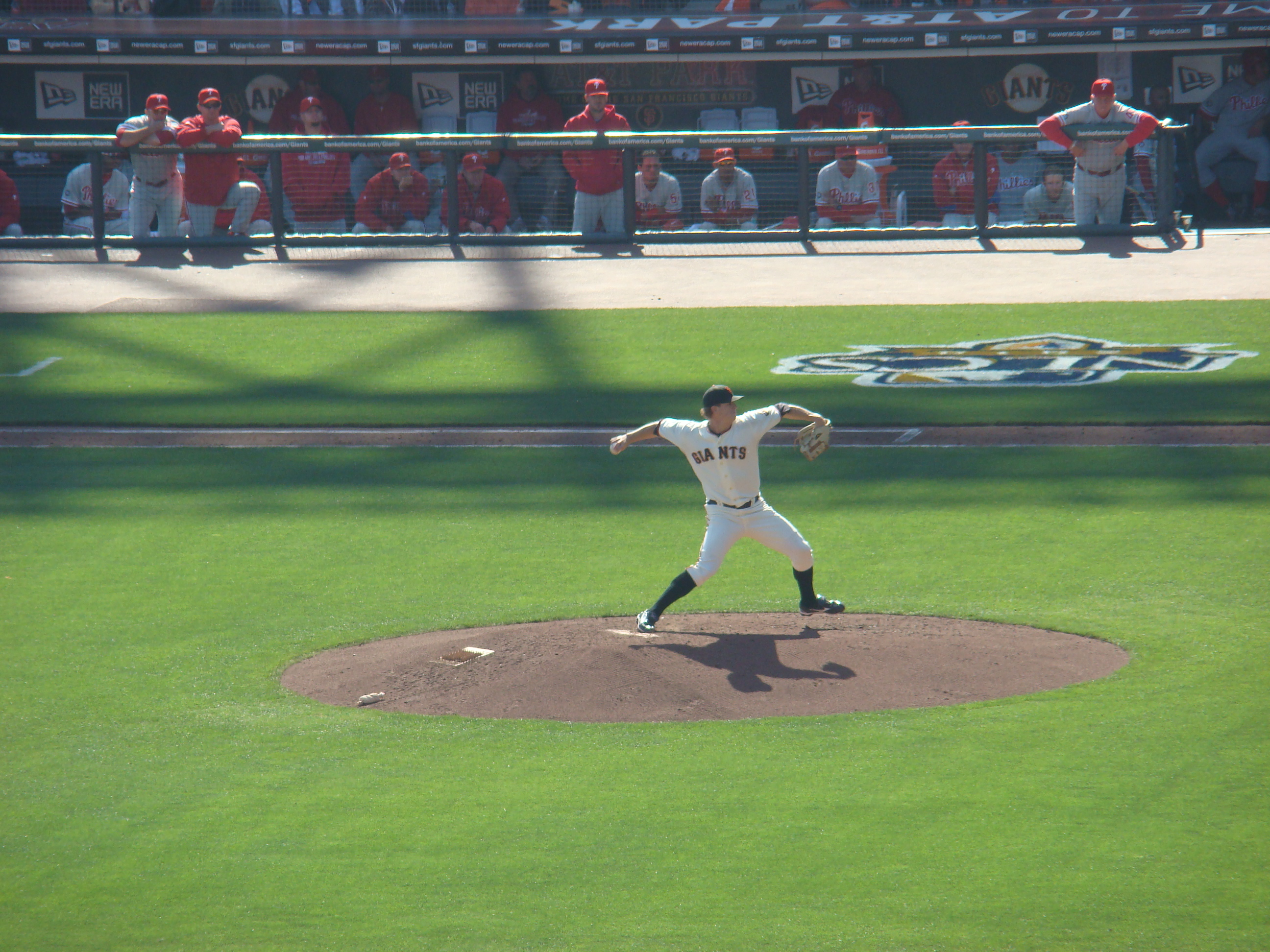 Matt Cain Winds Up